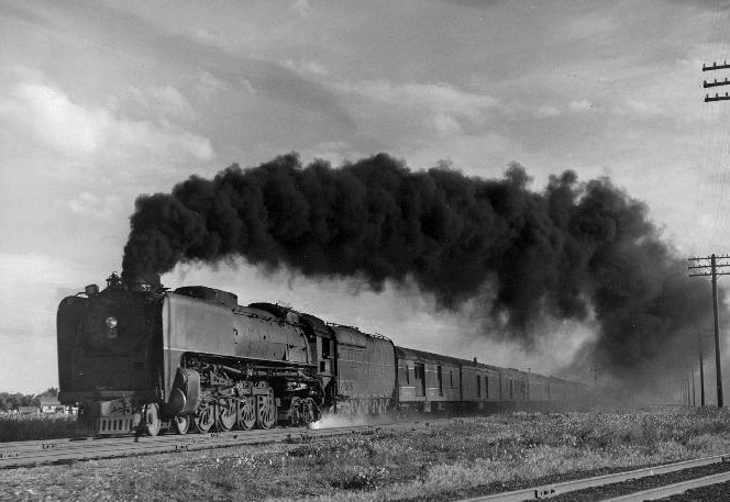 Photo of the Union Pacific train "Pony Express" pulled by UP locomotive 844 in 1949. The train traveled between Kansas City and Los Angeles until 1954, when it was discontinued.